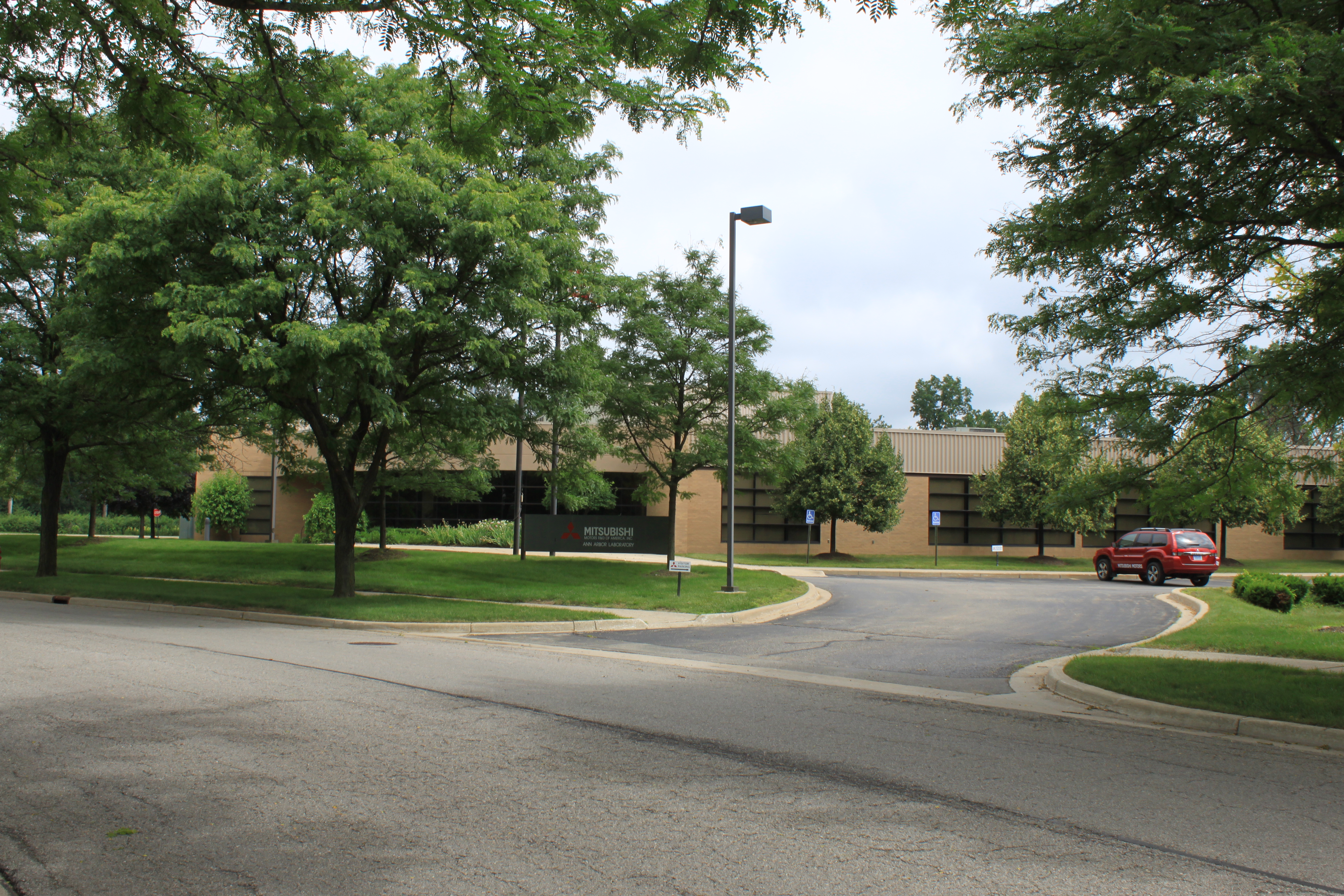 Mitsubishi R & D laboratory, Varsity Dr., Ann Arbor Michigan